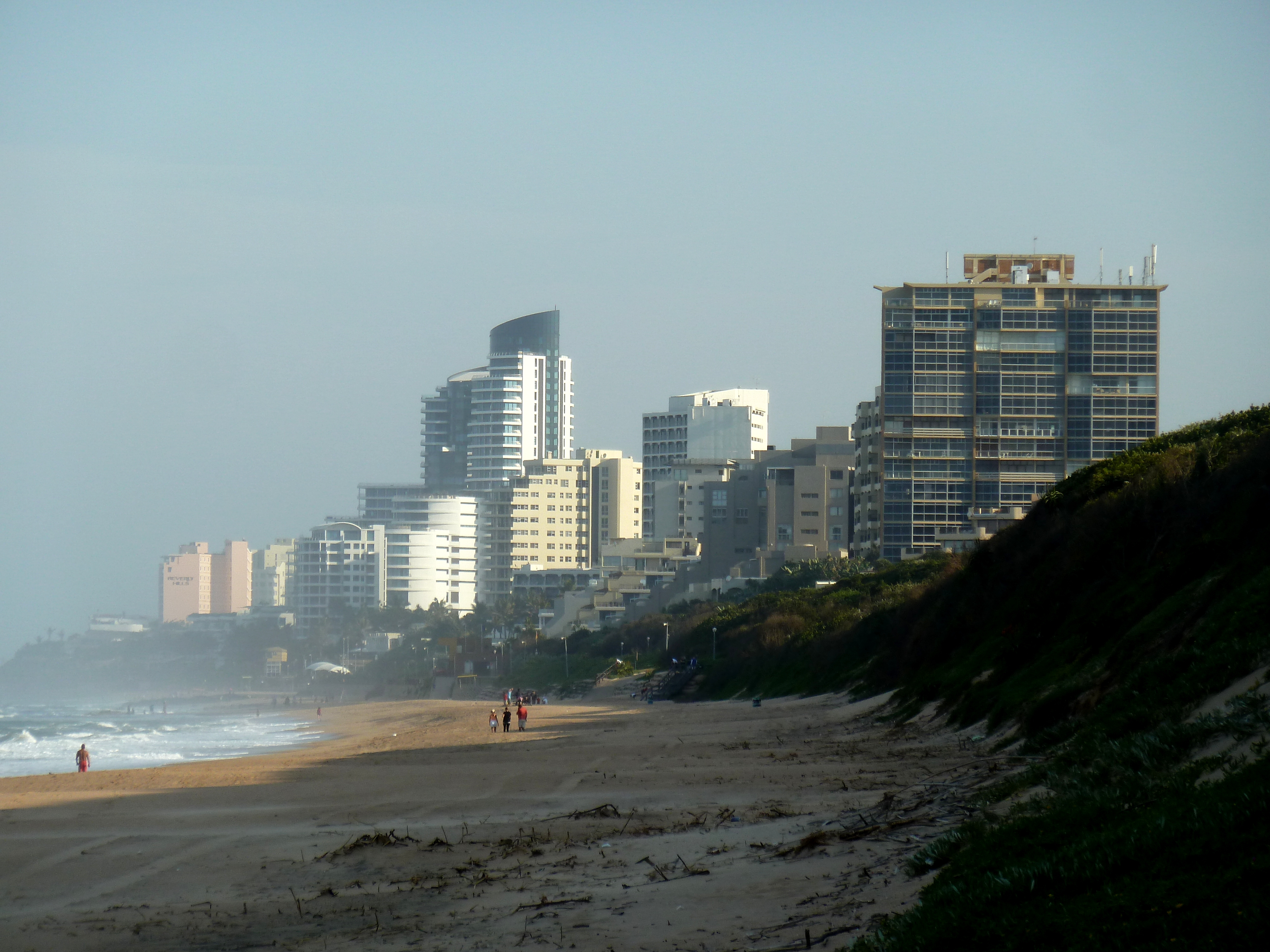 Umhlanga seen from the north beach near Breakers hotel